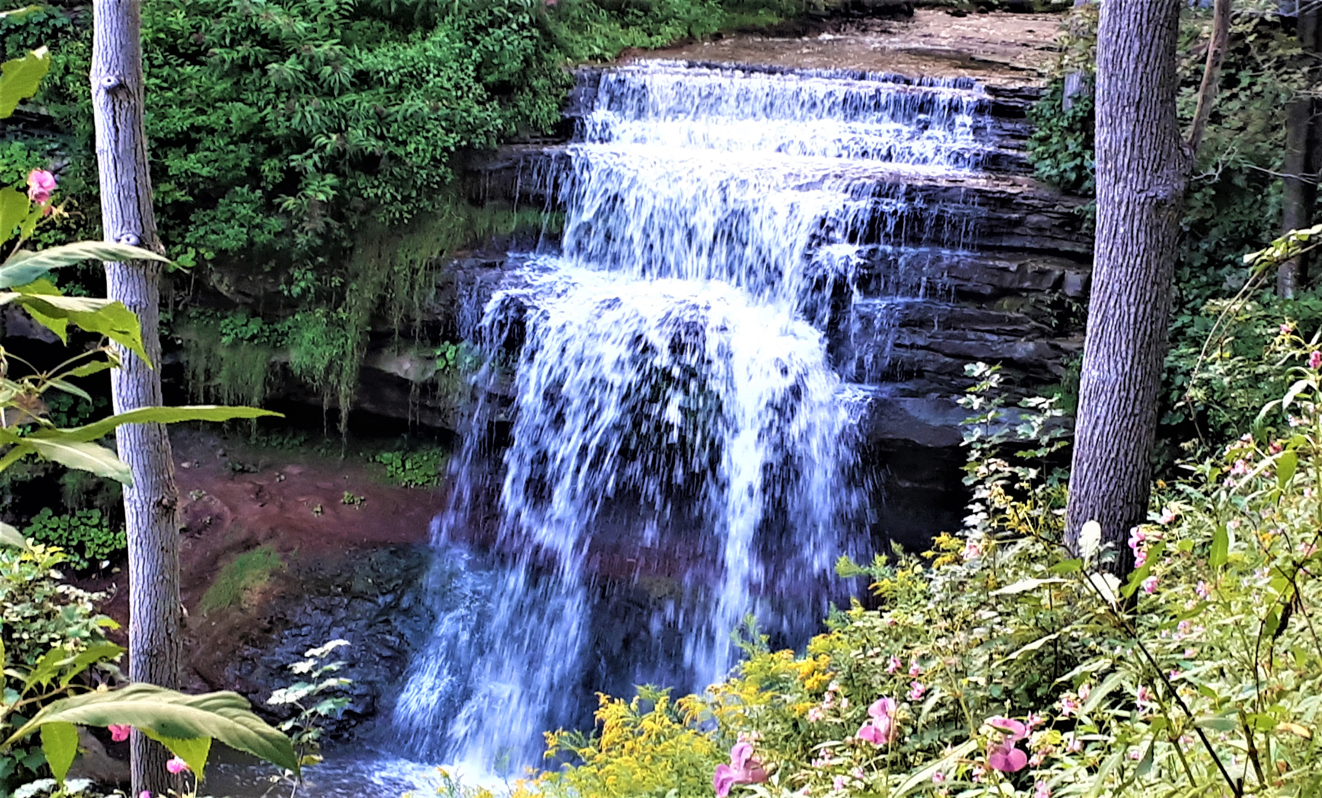 Great Falls, aka (Grindstone Falls) (Waterdown Falls) (Smokey Hollow Falls), is a 10-metre-high (33 ft) ribbon waterfall on Grindstone Creek in Waterdown, Ontario